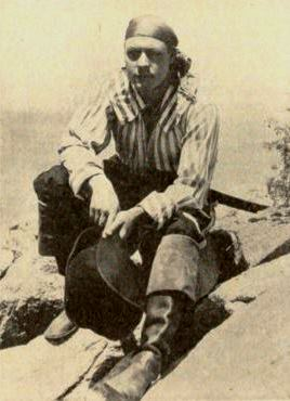 Still from the American drama film A Man of Honor (1919) with Harold Lockwood, on page 16 of the July 6, 1918 Exhibitors Herald. The caption, noting Lockwood plays a pirate in the film, used the film's working title "A King in Khakis.